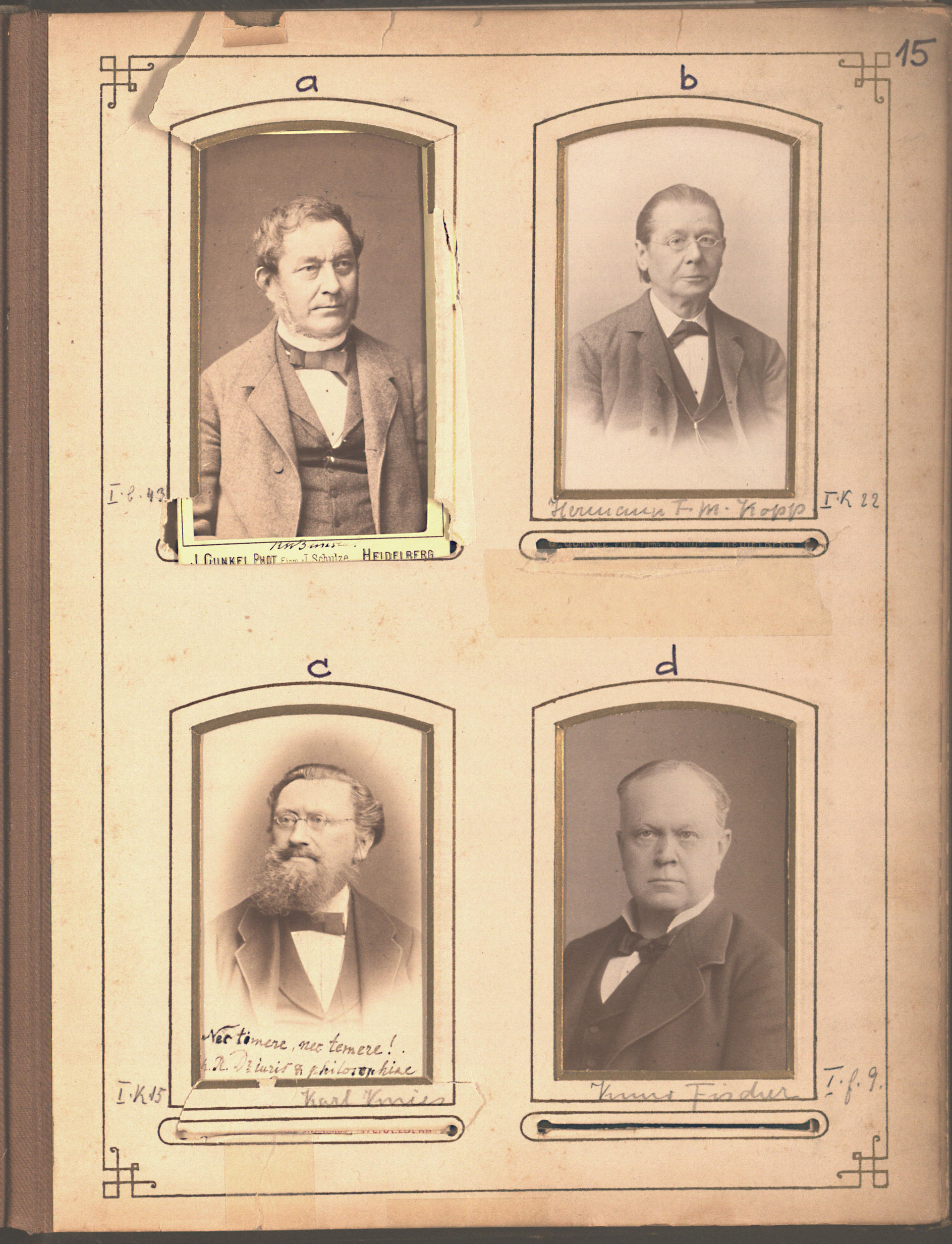 Depicting a: Bunsen, Robert Wilhelm. b: Kopp, Hermann (Franz Moriz). c: Knies, Carl (Gustav Adolf). d: Fischer, (Ernst) Kuno (Berthold)